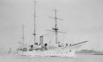 HMS Espiegle (1900)